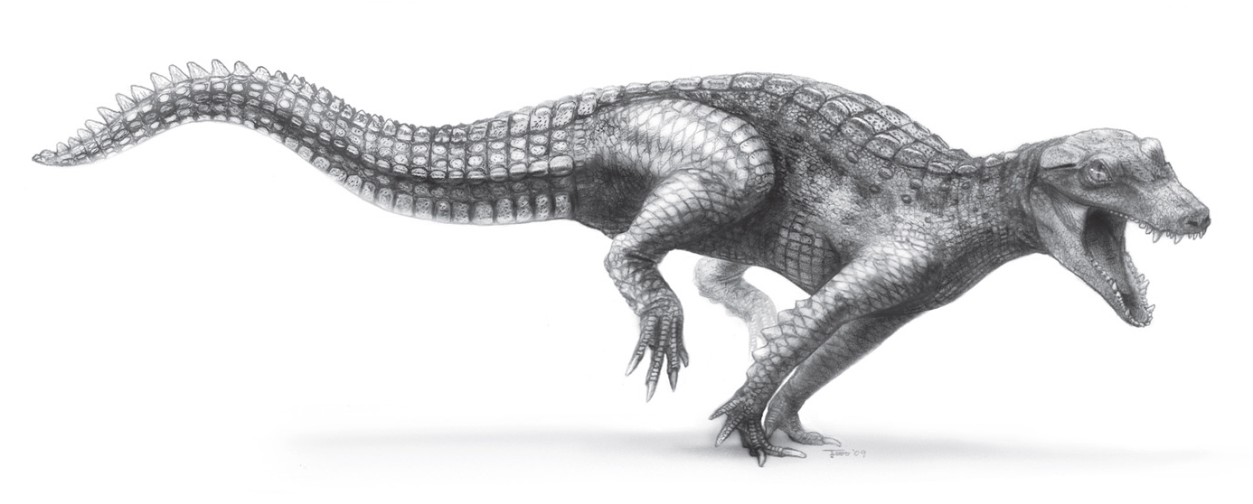 Life restoration of Araripesuchus wegeneri.Adult (~81 cm) with proportions based on an adult skeleton (MNN GAD21), in which forelimb and hind limb comprise 50% and 75%, respectively, of trunk length.